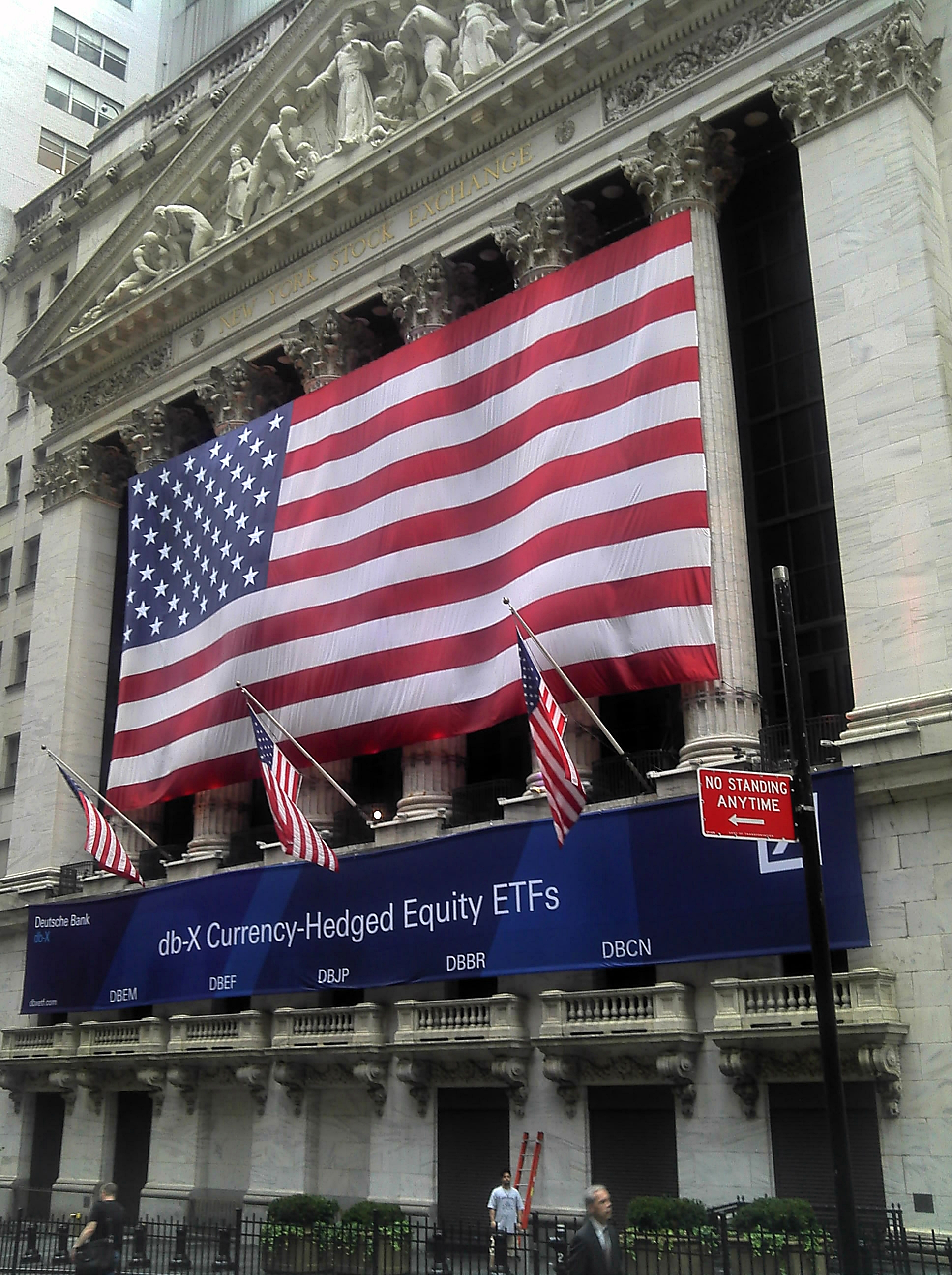 The New York Stock Exchange on August 9, 2011, when Deutsche Bank's db-X Group rang the opening bell to commence trading on NYSE Arca.